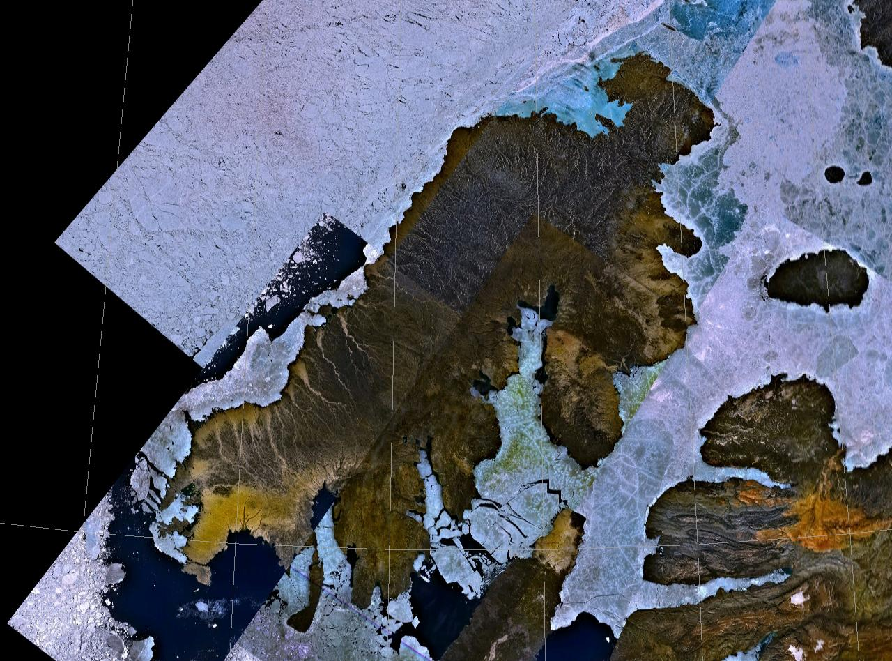 Prince Patrick Island, Canada